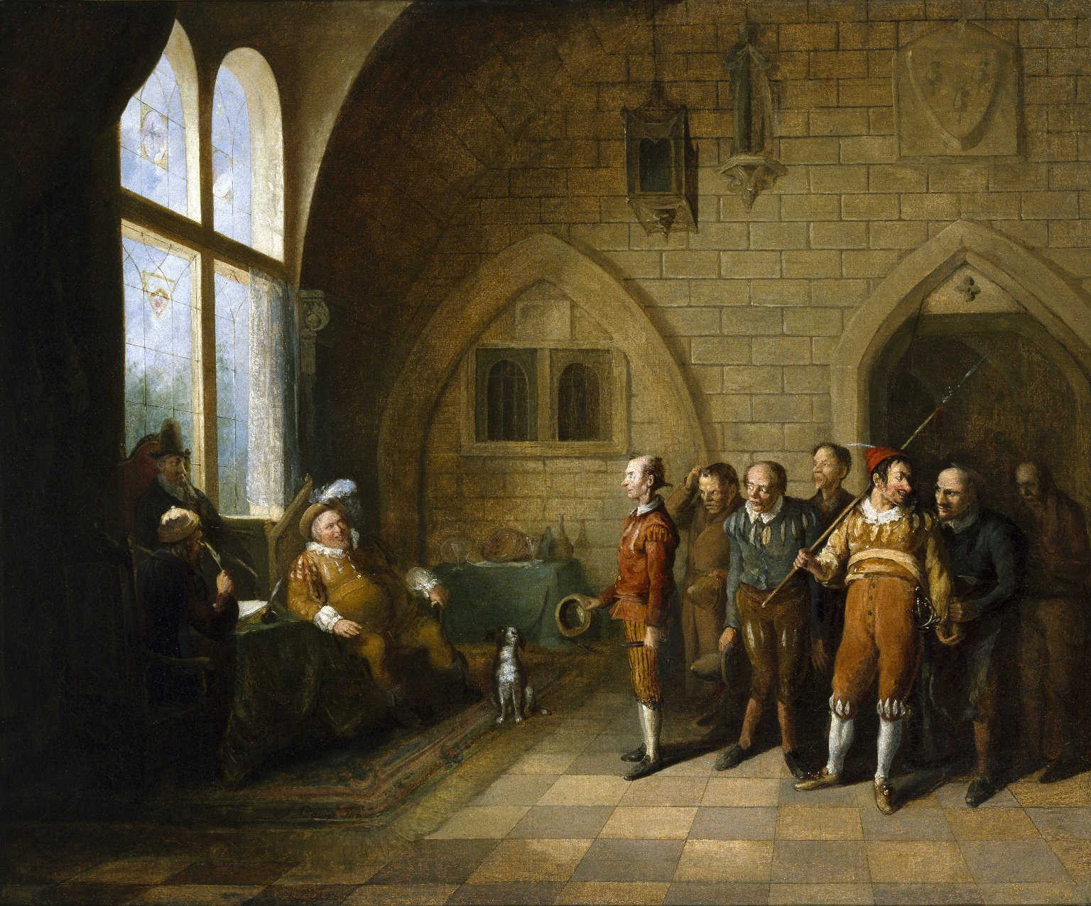 From Act III, Scene 2 of William Shakespeare's Henry IV, Part 1